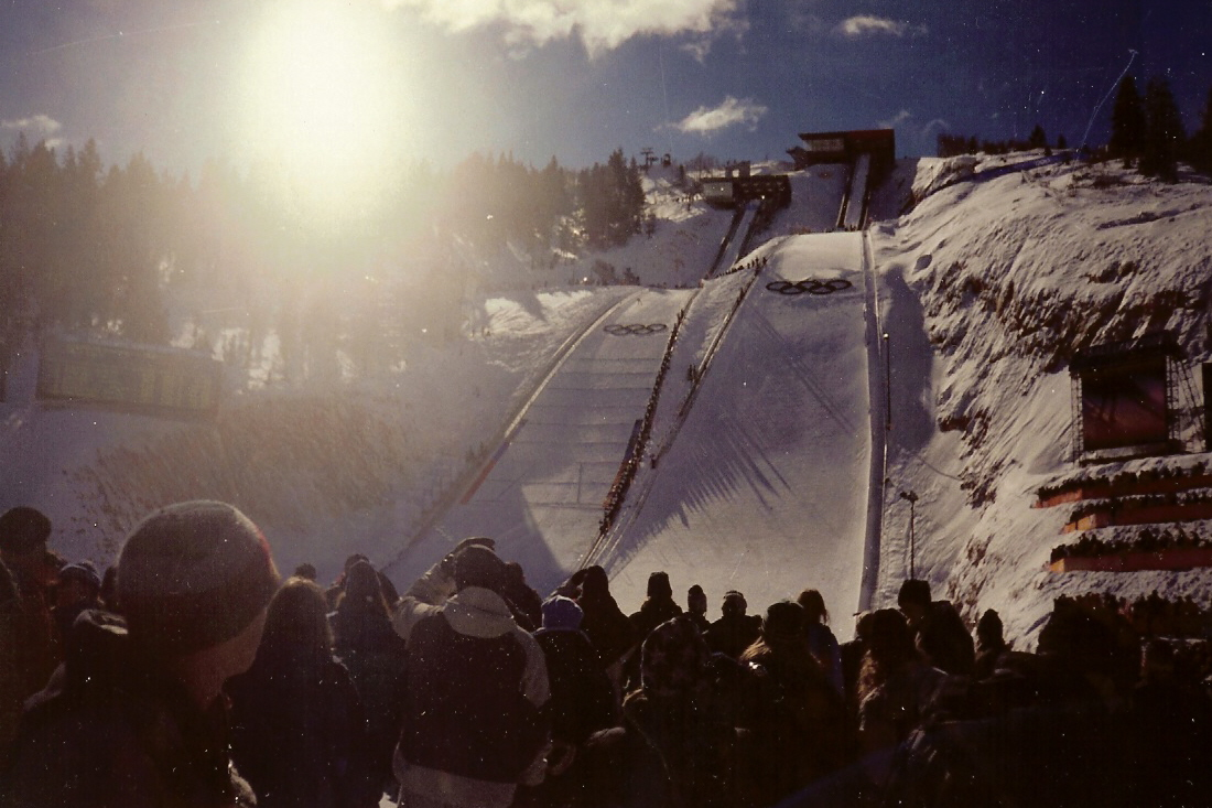 Nordic combined at the 2002 olympics in Utah Park